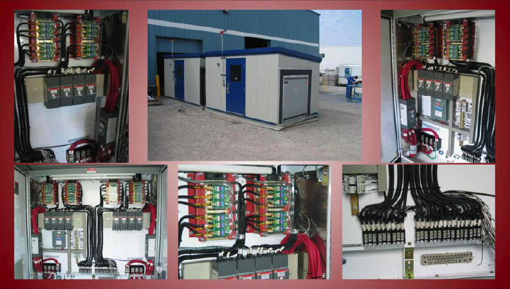 The ET-DSP™ power delivery system